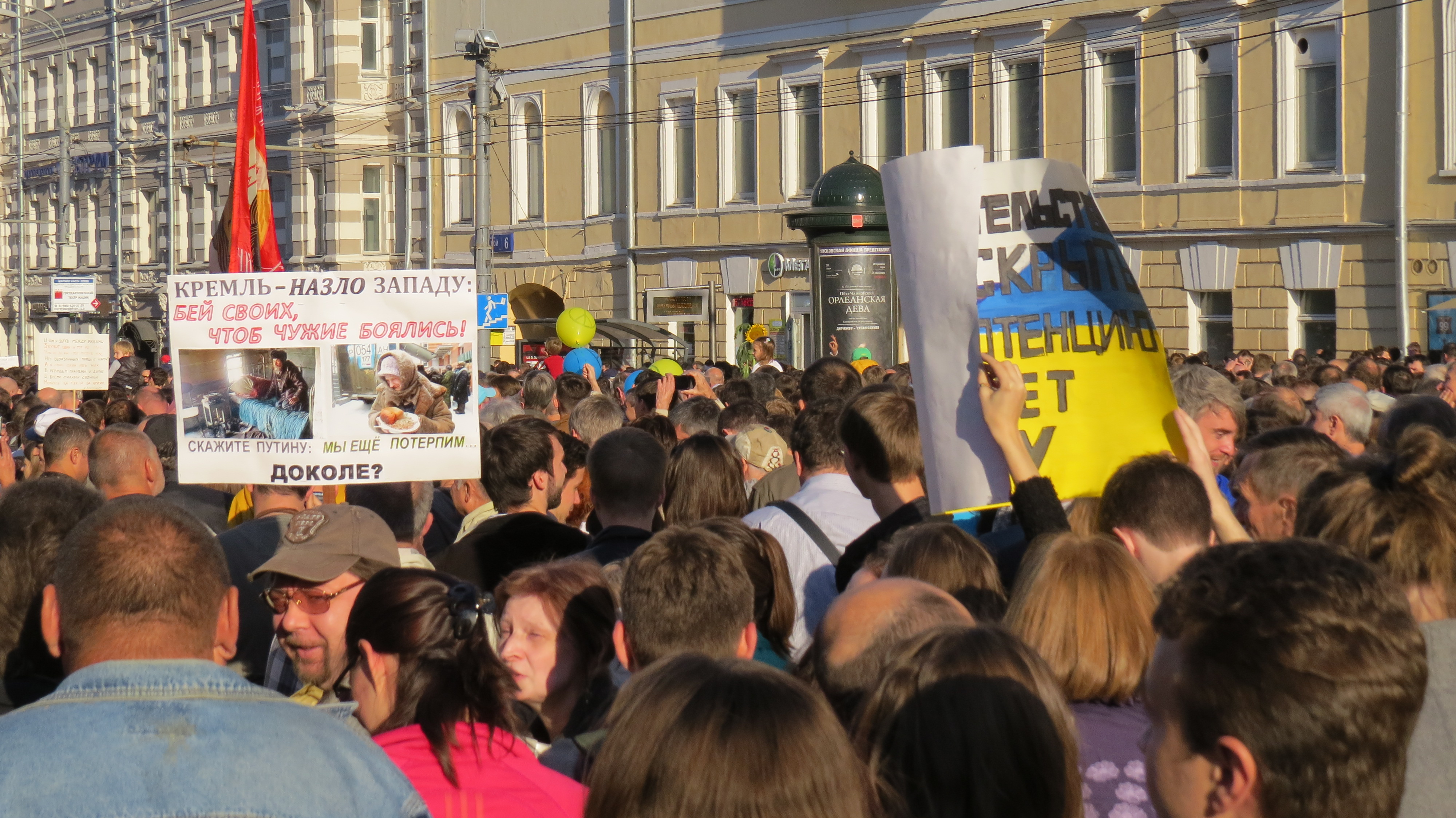 March of Peace in Moscow. September 21, 2014.